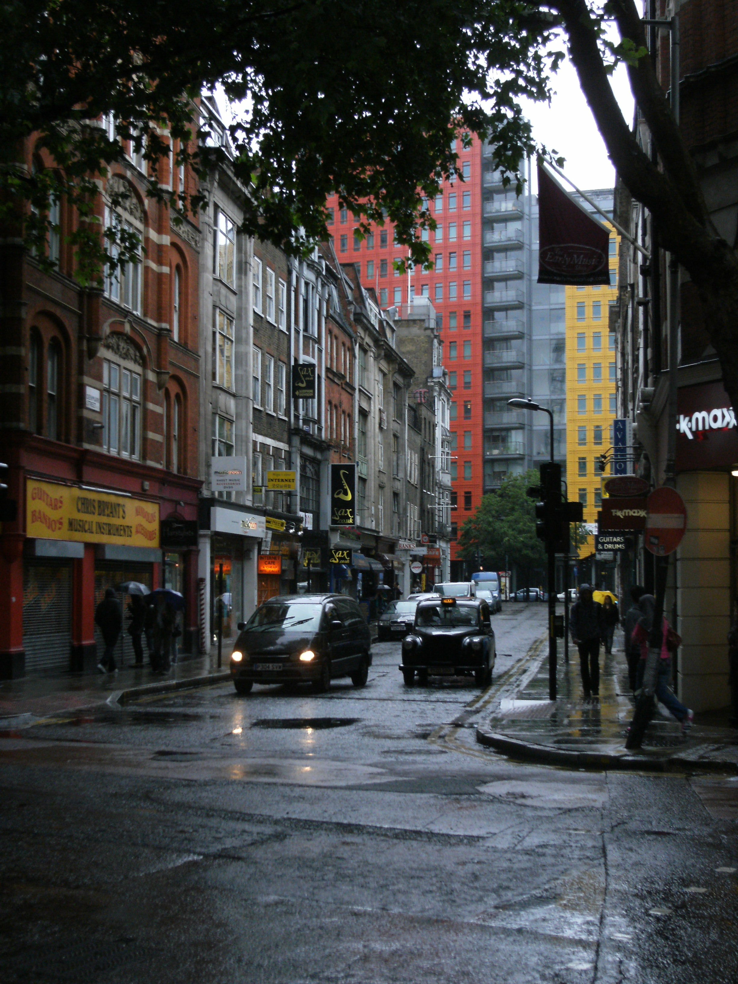 Denmark Street, London. Photo taken from Charing Cross Road.